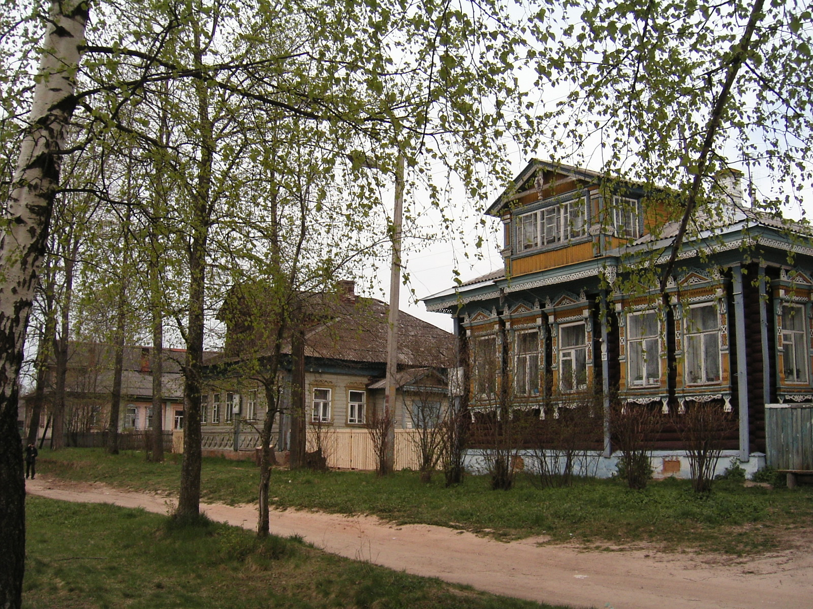 House with trees in Myshkin, spring 2004